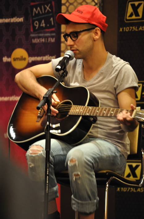 Secret radio show for 107.5 Las Vegas